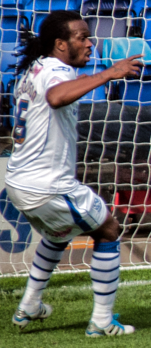 crop of Ian Goodison playing for Tranmere Rovers v Wycombe. Levels adjusted.